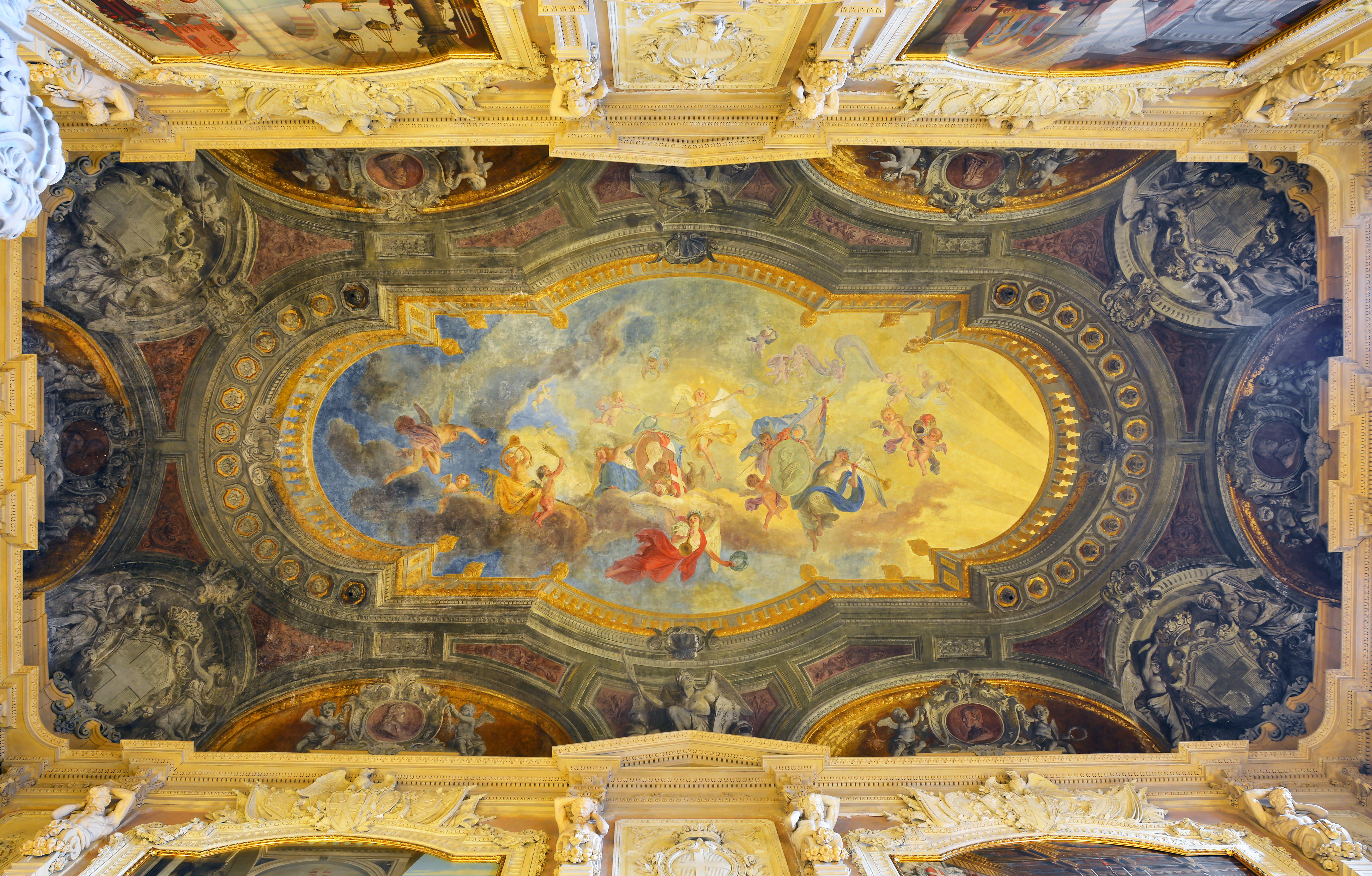 Royal Palace (Turin)- Ceiling royal staircase